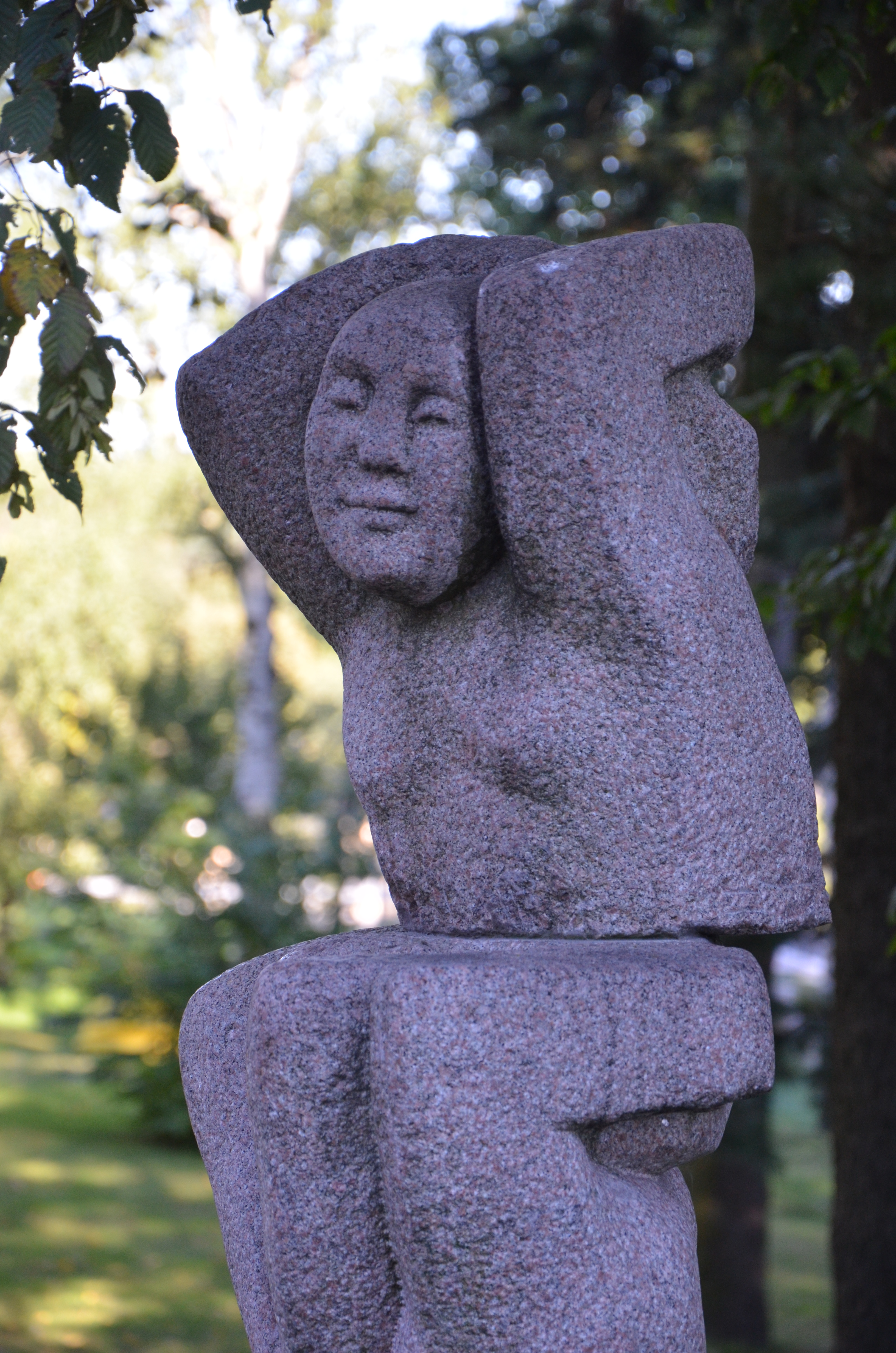 Lena Kriströms På axlarna, detalj, granit, 1995, entrén till Eugeniahemmet, Karolinska sjukhuset, Solna